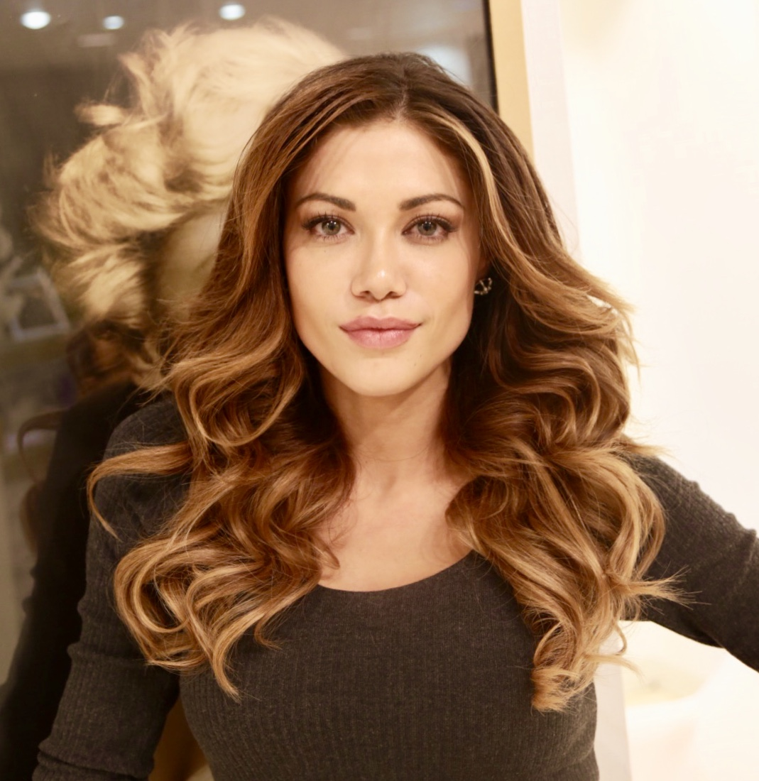 Hilary Cruz in lobby at Mann Chinese